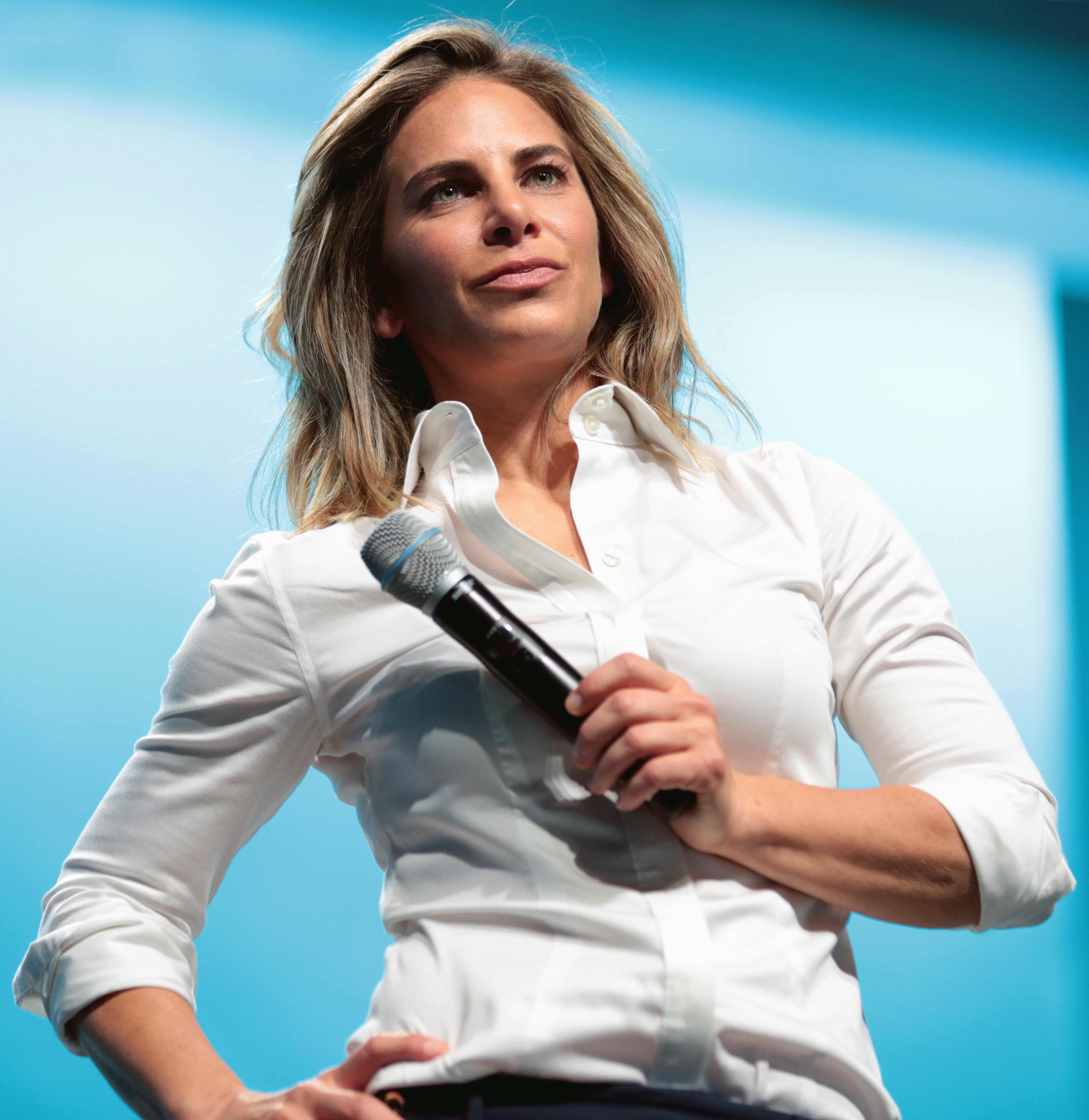 Jillian Michaels speaking at an event in Phoenix, Arizona